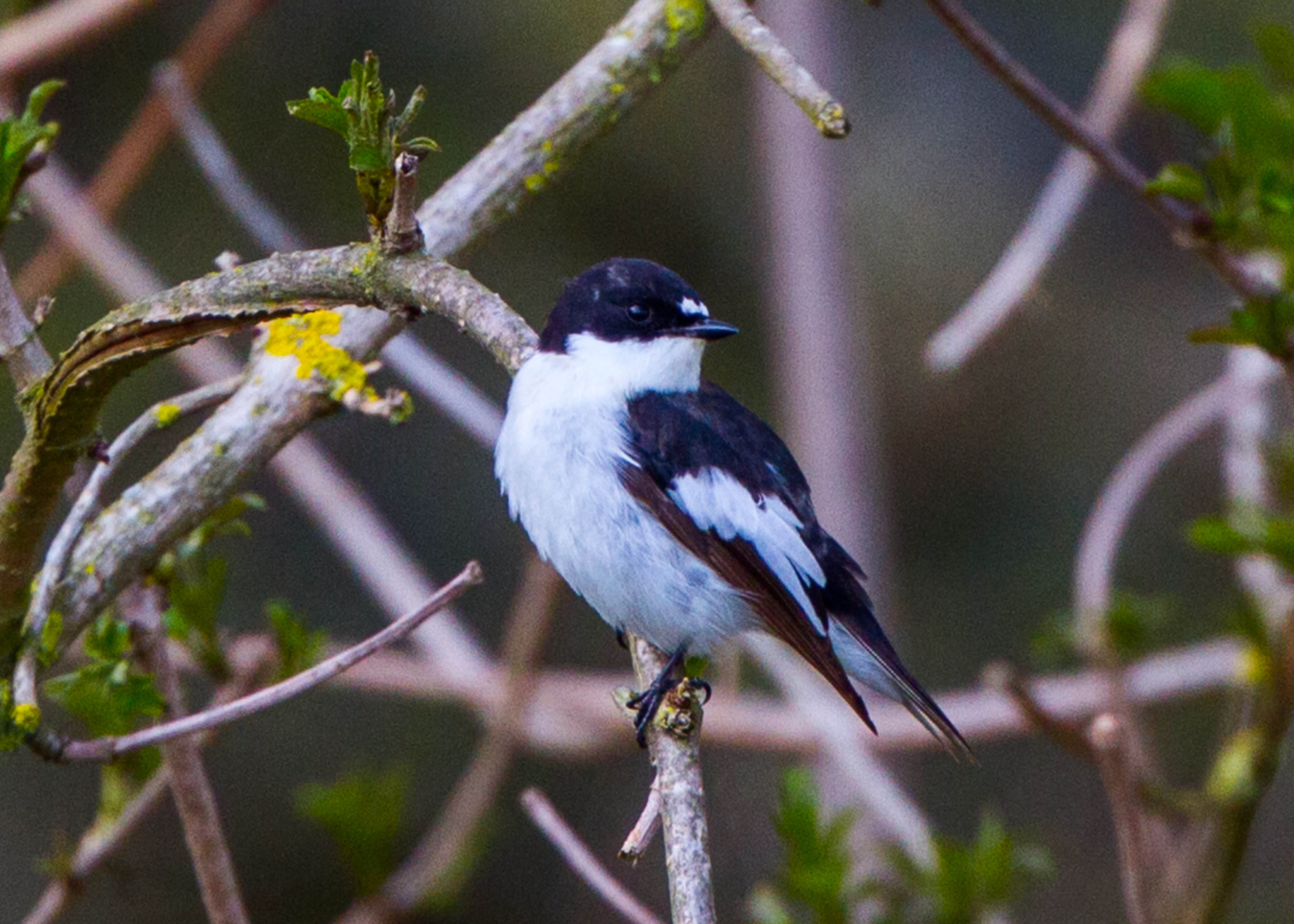 Pied Flycatcher Ficedula hypoleuca, first-summer male; newly arrived at Harry's Bush, Cuckmere Haven, Sussex, UK.